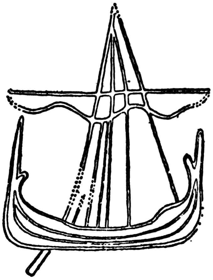 Illustration of a Viking ship engraved on a stone at Kirk Maughold, Isle of Man. The stone is sometimes called "Maughold IV" or "Hedin's Cross".